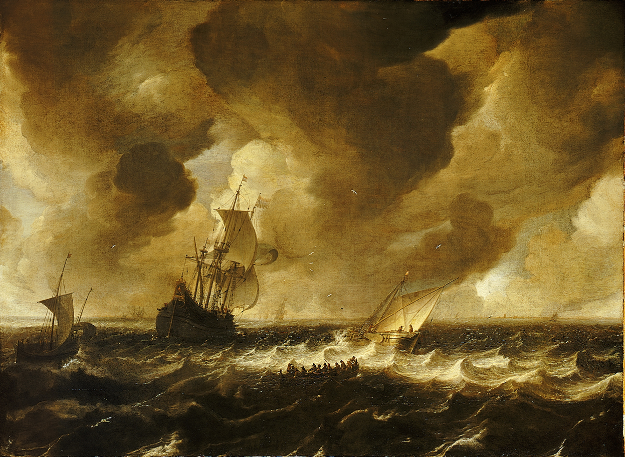 A flute and other vessels off the Dutch coast, by Pieter de Zeelander, mid 17th century, oil on canvas, painting: 1170 mm x 1600 mm; frame: 1430 x 1855 x 85 mm, National Maritime Museum, Greenwich, London